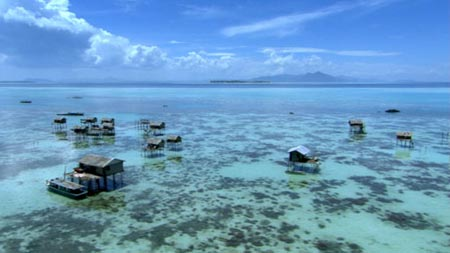 This image can be used by other bloggers as long as link attribution is given to page below as the source.